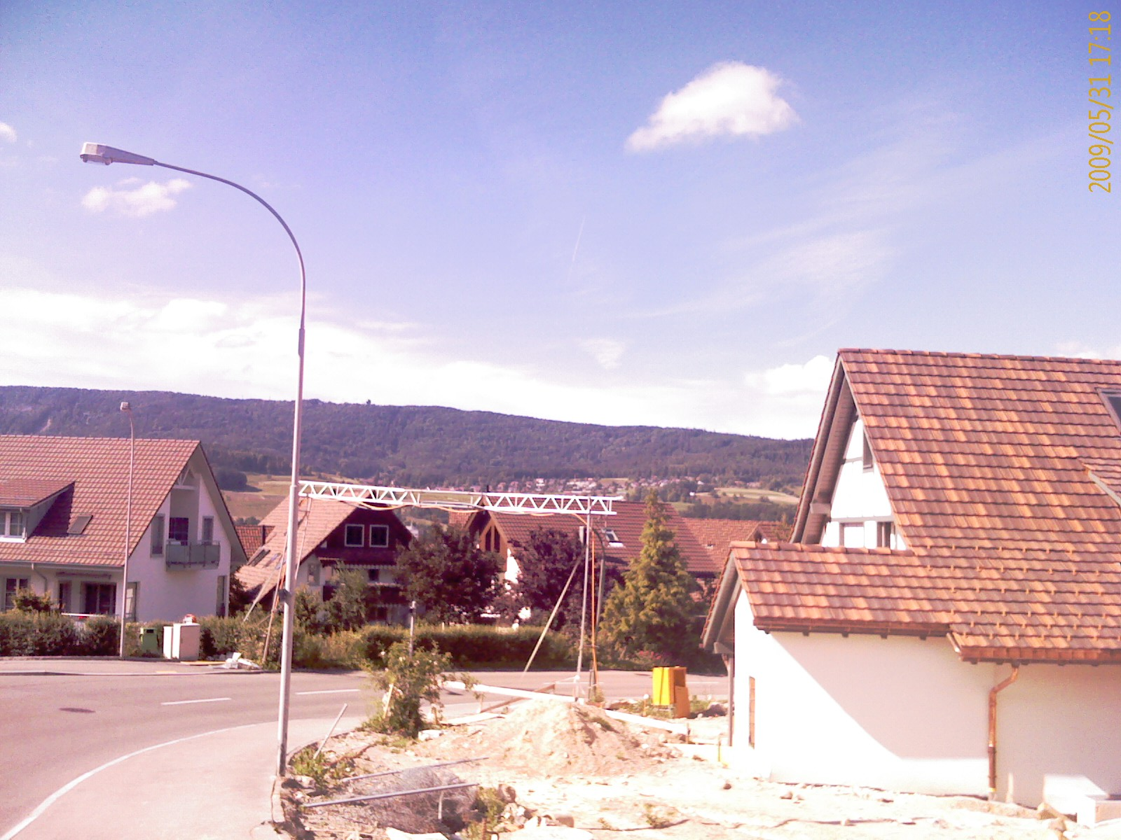 Dänikon and in the back the mountain chain Lägern, canton of Zürich, SwitzerlandEsperanto: Dänikon kaj en la fono la montoĉeno Lägern, Kantono Zuriko, Svislando